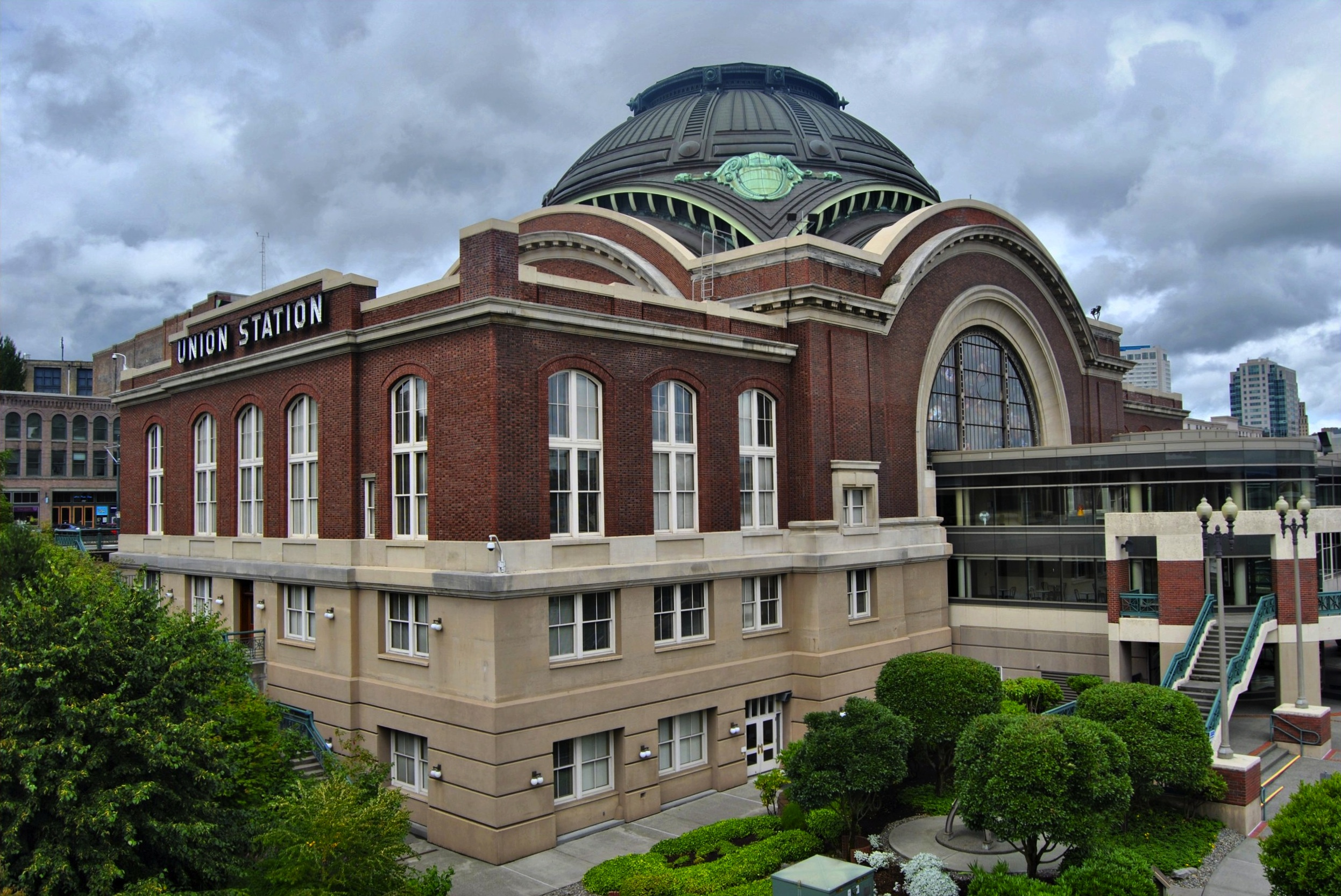 The Union Passenger Station in Tacoma, Washington opened in 1911 and gained a listing on the National Register of Historic Places in 1974. It currently serves as a courthouse of the United States District Court for the Western District of Washington. The distinctive architecture, dominated by a copper dome, serves as a common landmark for the area. Amtrak Uses a less grand station away from this location